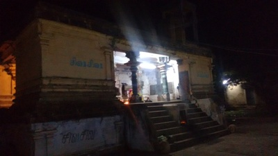 Akkurthanthondrisvarartemple2 ஆக்கூர் தான்தோன்றீசுவரர் கோயில்